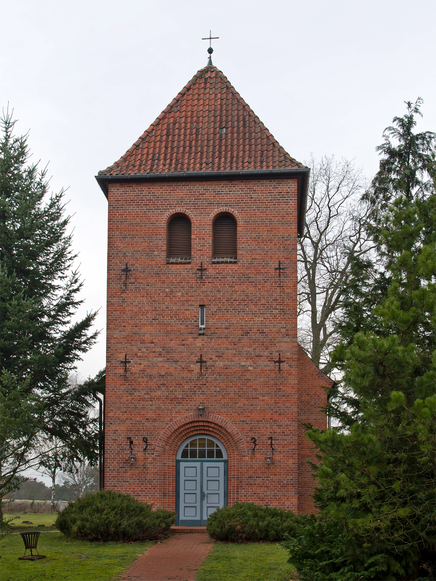 Church of the small village Wibbese (district Lüchow-Dannenberg, northern Germany).